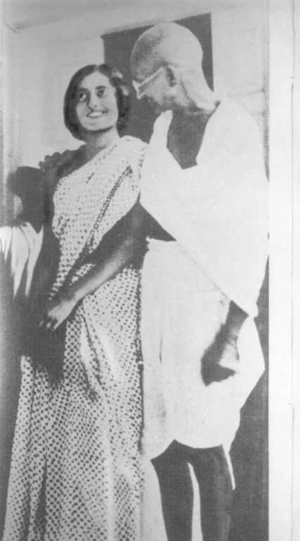 Mohandas K. Gandhi and Indira Gandhi, future Prime Minister of India. Late 1930s.